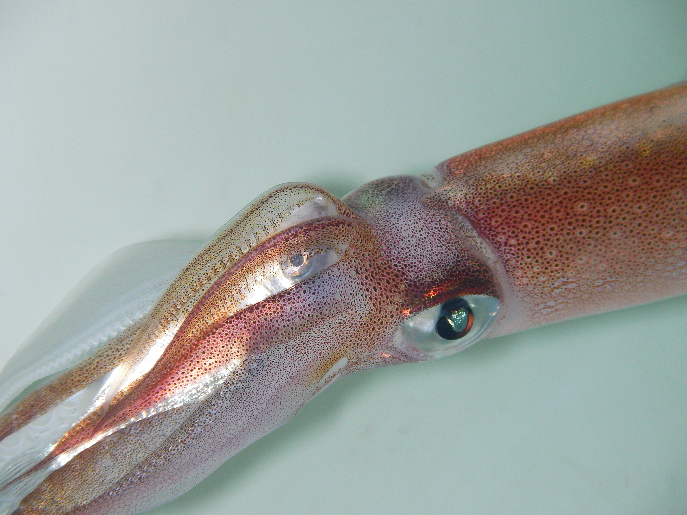 With a refined and tenacious tactic of predation, the European squid (Loligo vulgaris) has captured a bream (Sparus aurata) launching its tentacles and applying a lethal bite in the prey column. The image captures the moment when the squid seizes the prey with his arms.